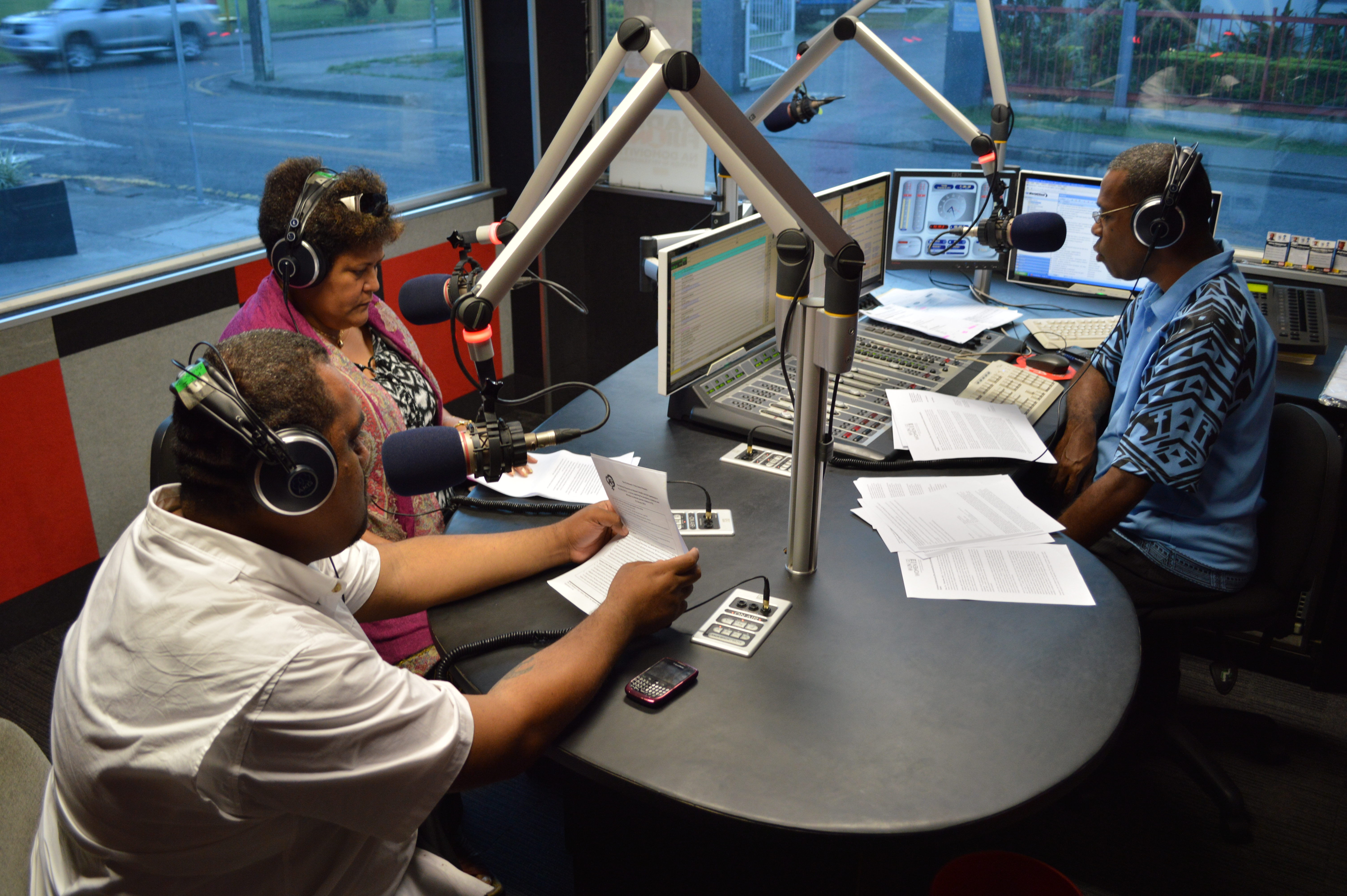 Tura Lewai, Male Advocate and Luisa Vodonaivalu, Grants Administration Coordinator,UN Women on iTaukei Radio Talk-back show on Fiji Broadcasting Corporation advocating to stop violence against women and girls during the 16 Days Activism, 2013. Photo: UN Women/Saleshni Chaudhary.